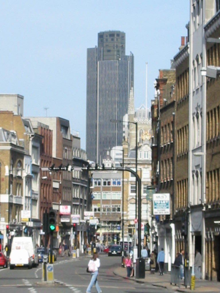 Borough High Street, Southwark, London.